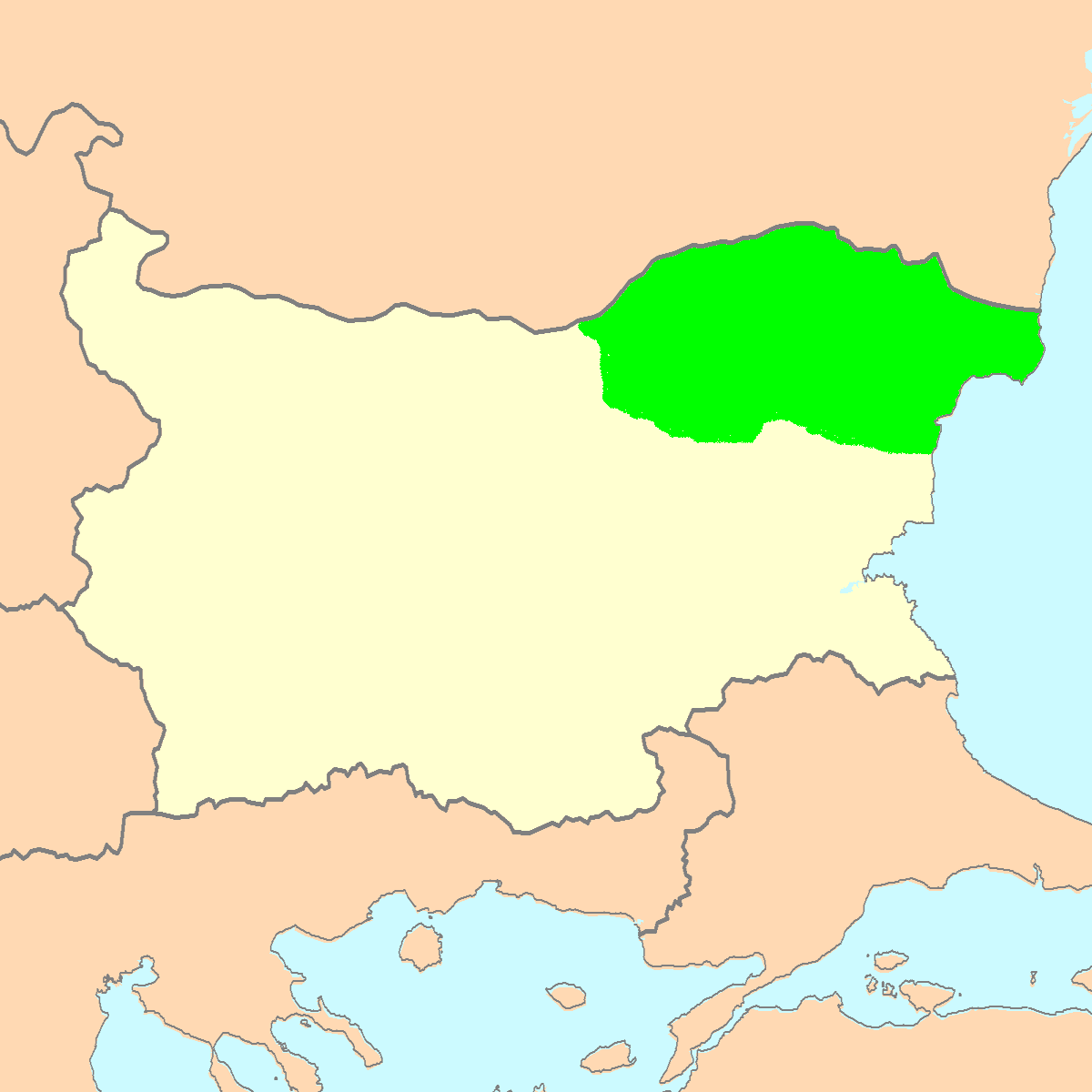 Copper-Red Shumen Sheep area of distribution